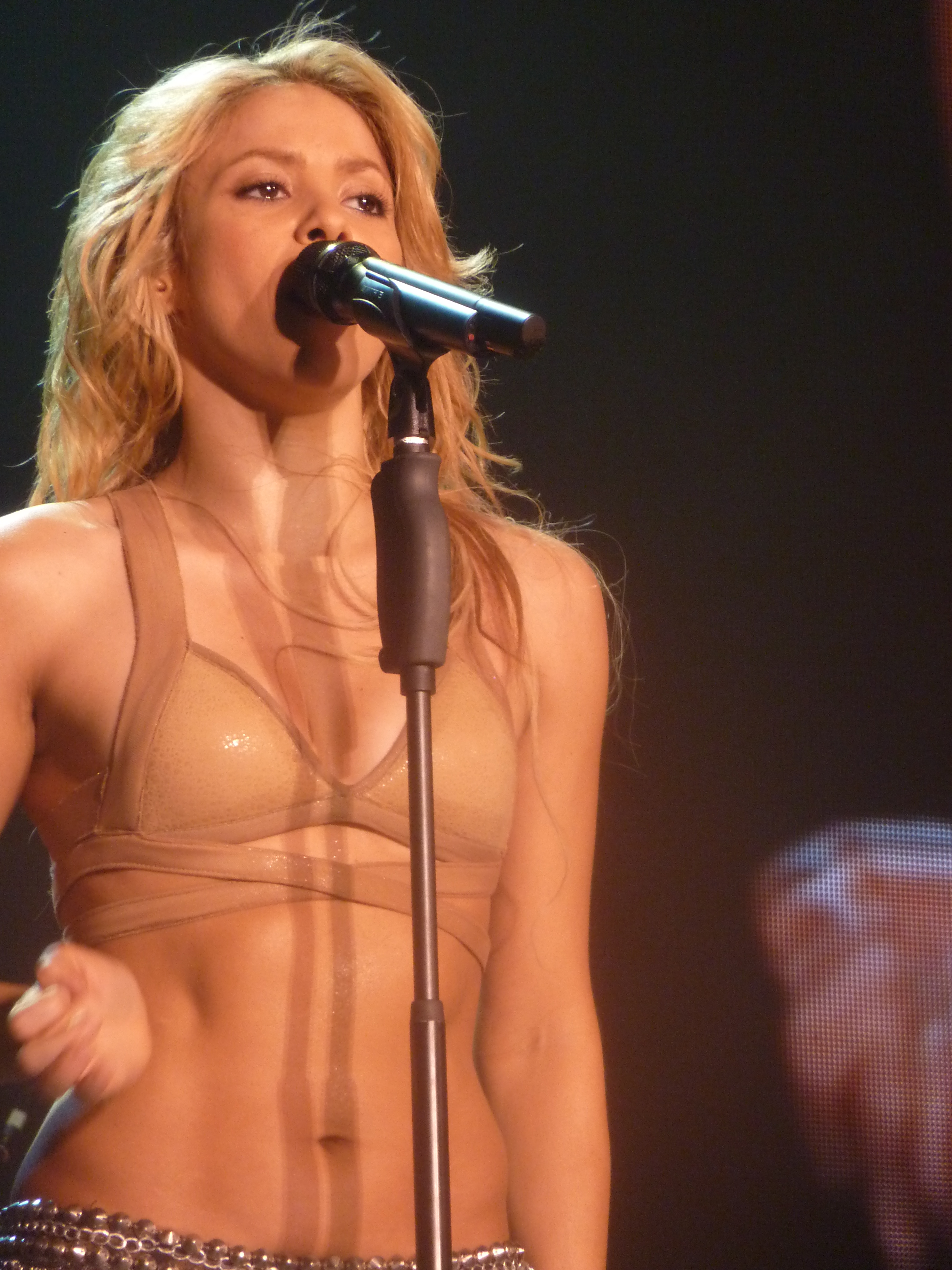 Shakira in concert in Palais Omnisports de Paris-Bercy, Paris in 2010.